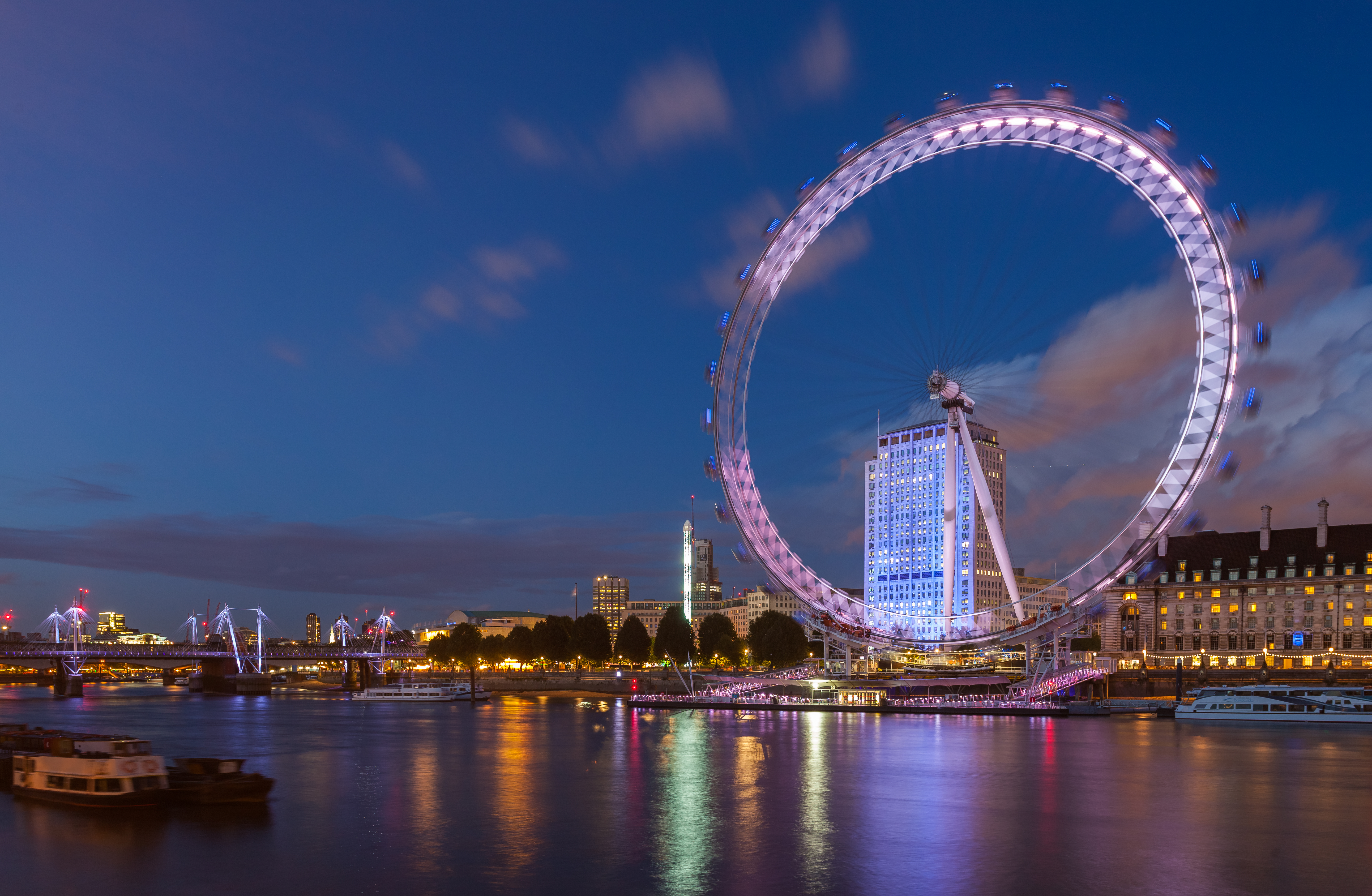 London Eye, London, England